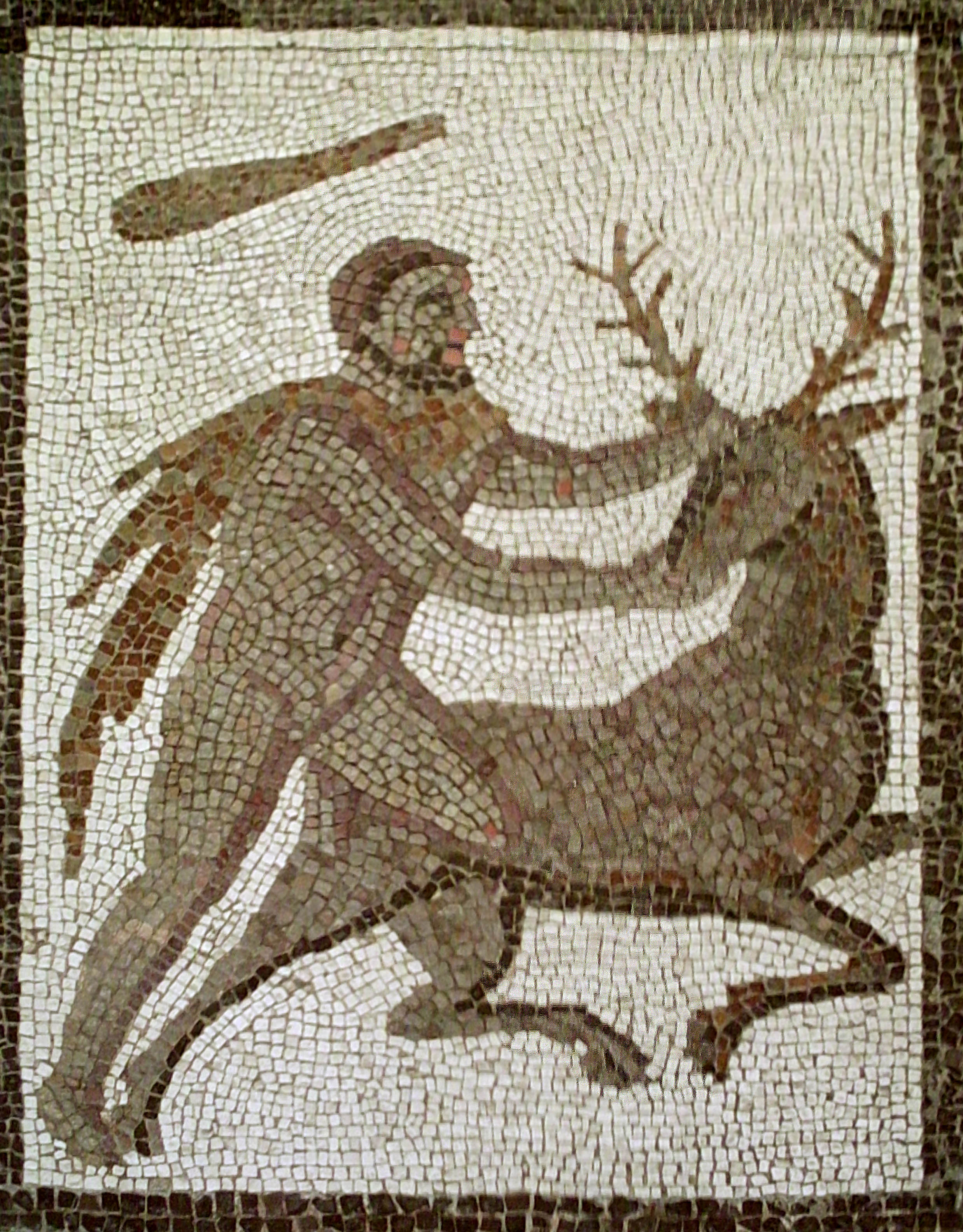 Hercules capturing the Ceryneian Hind. Detail of The Twelve Labours Roman mosaic from Llíria (Valencia, Spain).